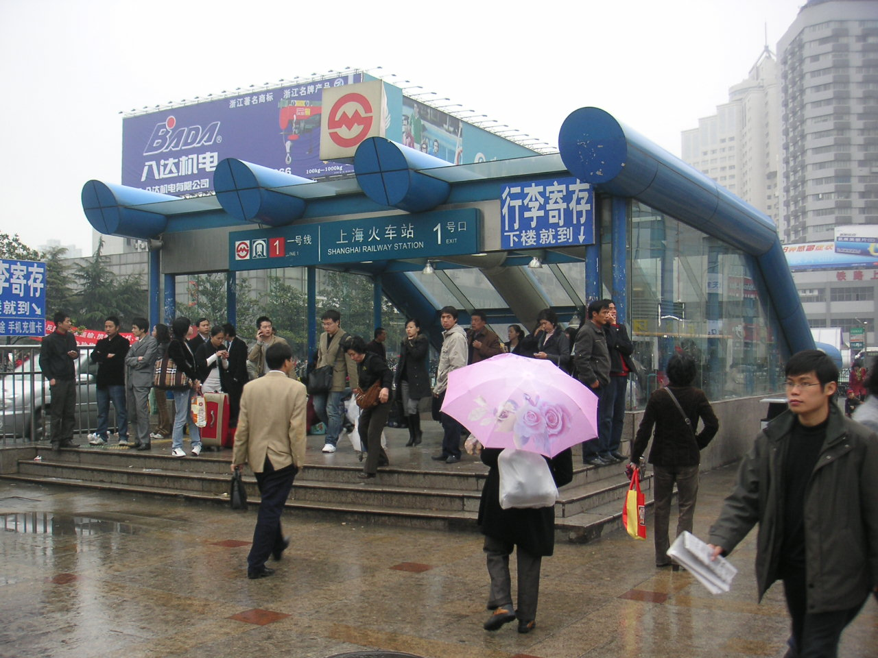 Exit No. 1 of the metro station in Shanhai railway station south square